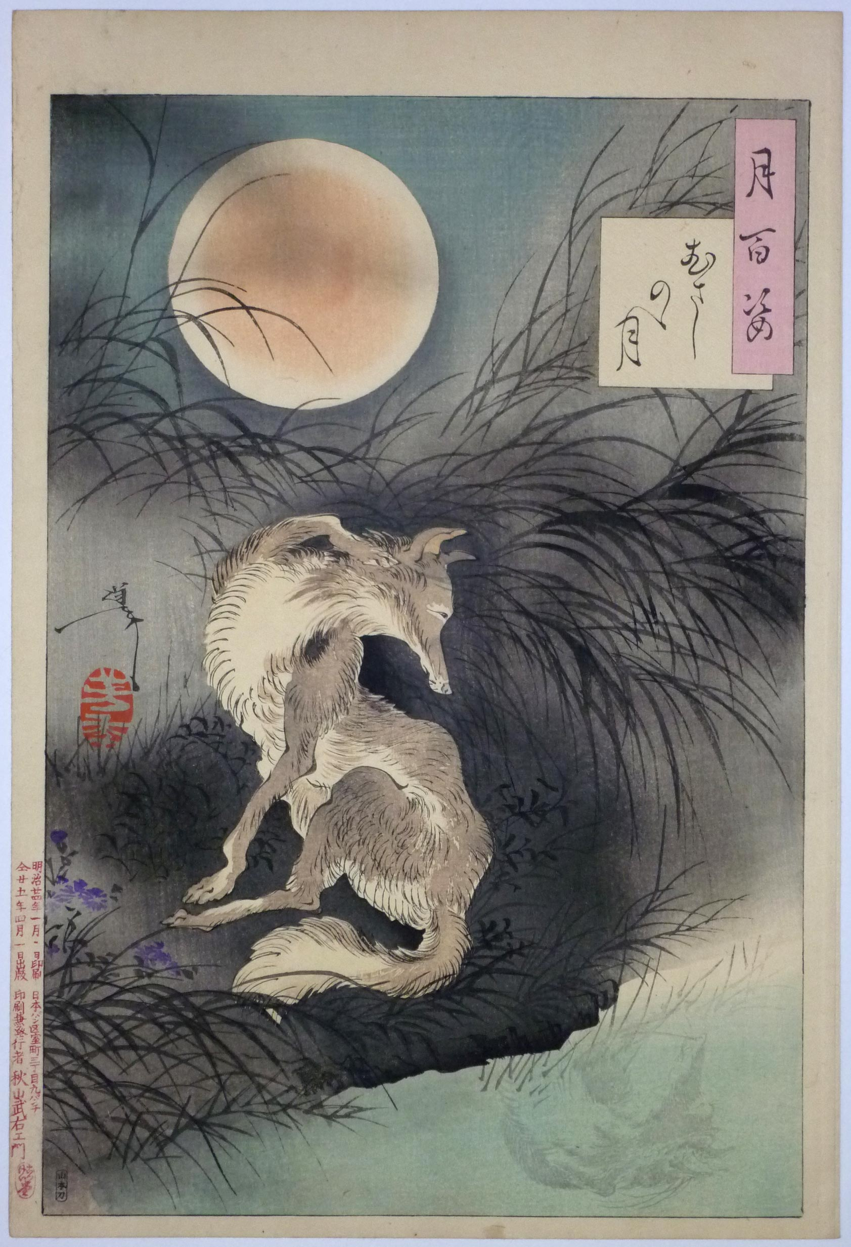 Musashi Plain moon (Musashino no tsuki)